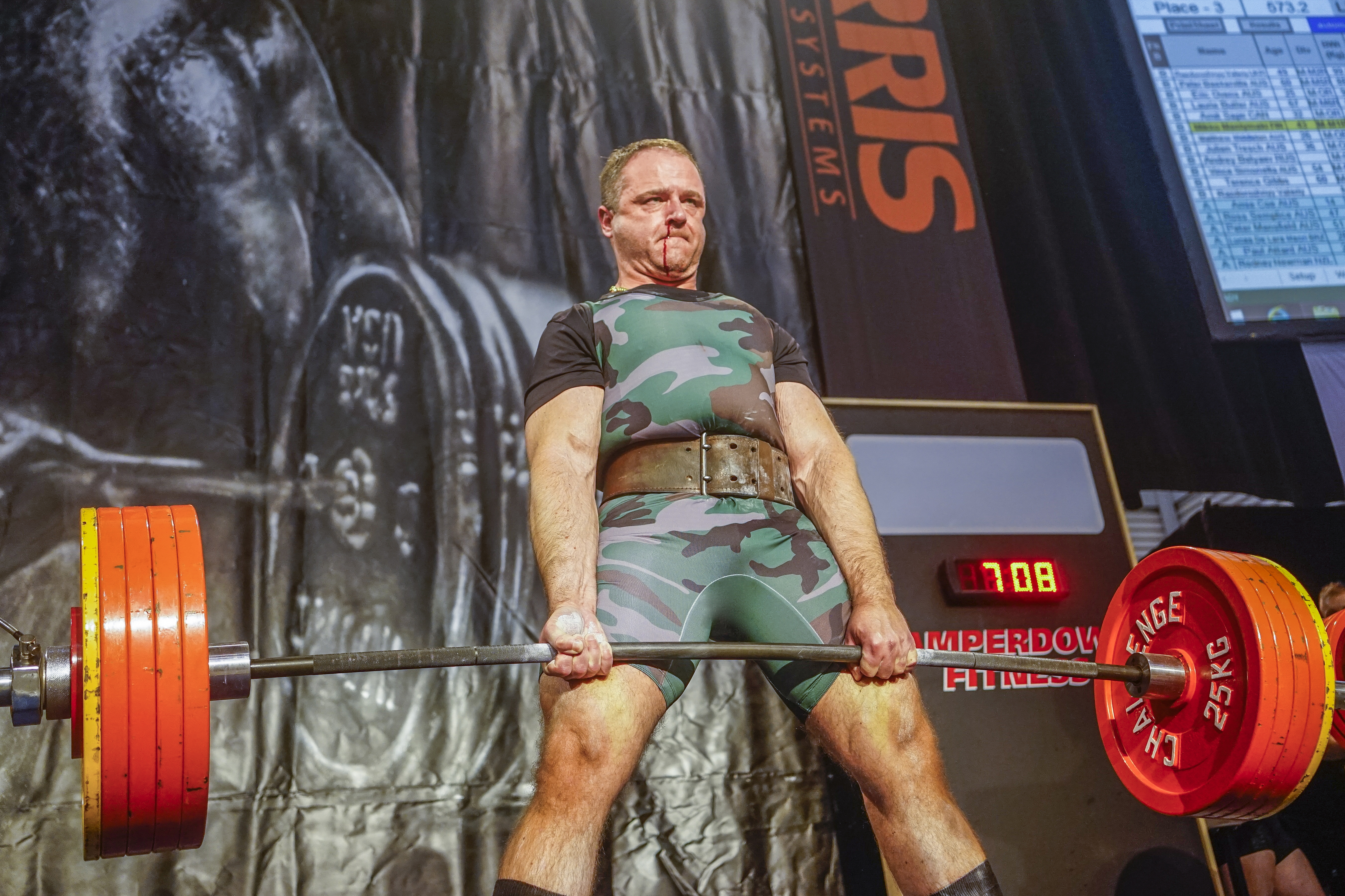 Mikko Mäntymäki at Sydney 2014